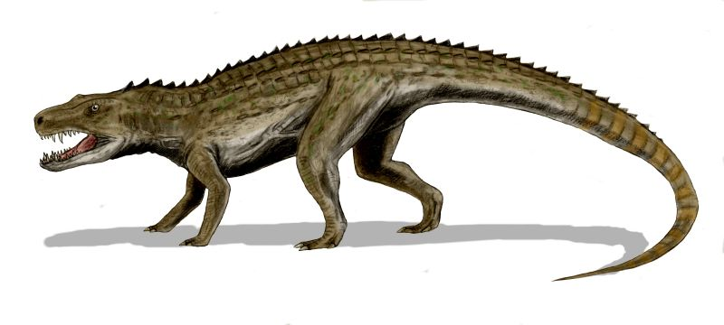 Postosuchus kirkpatricki, a rauisuchian from the Late Triassic of North America, pencil drawing